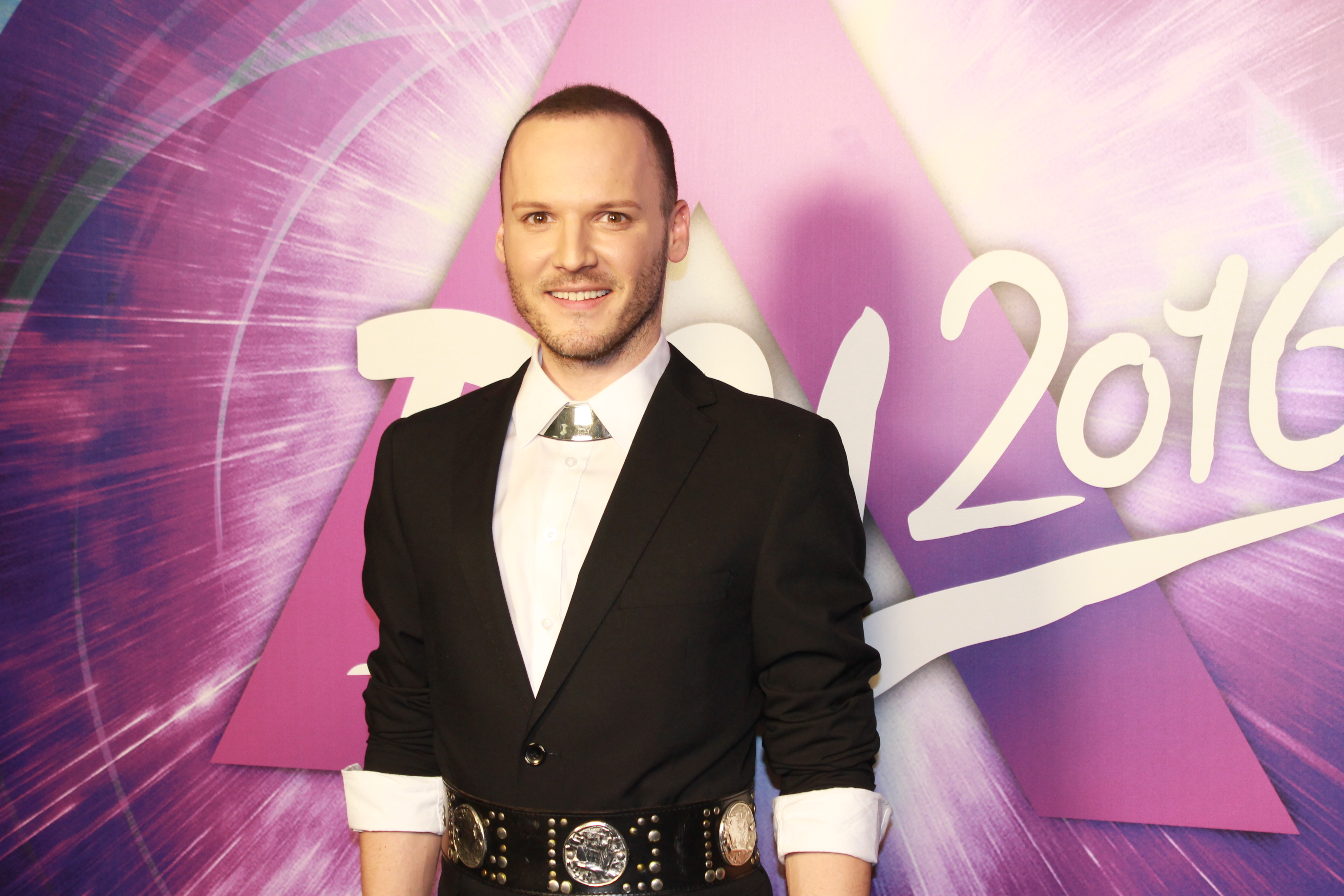 A Dal 2016 finalist: André Vásáry